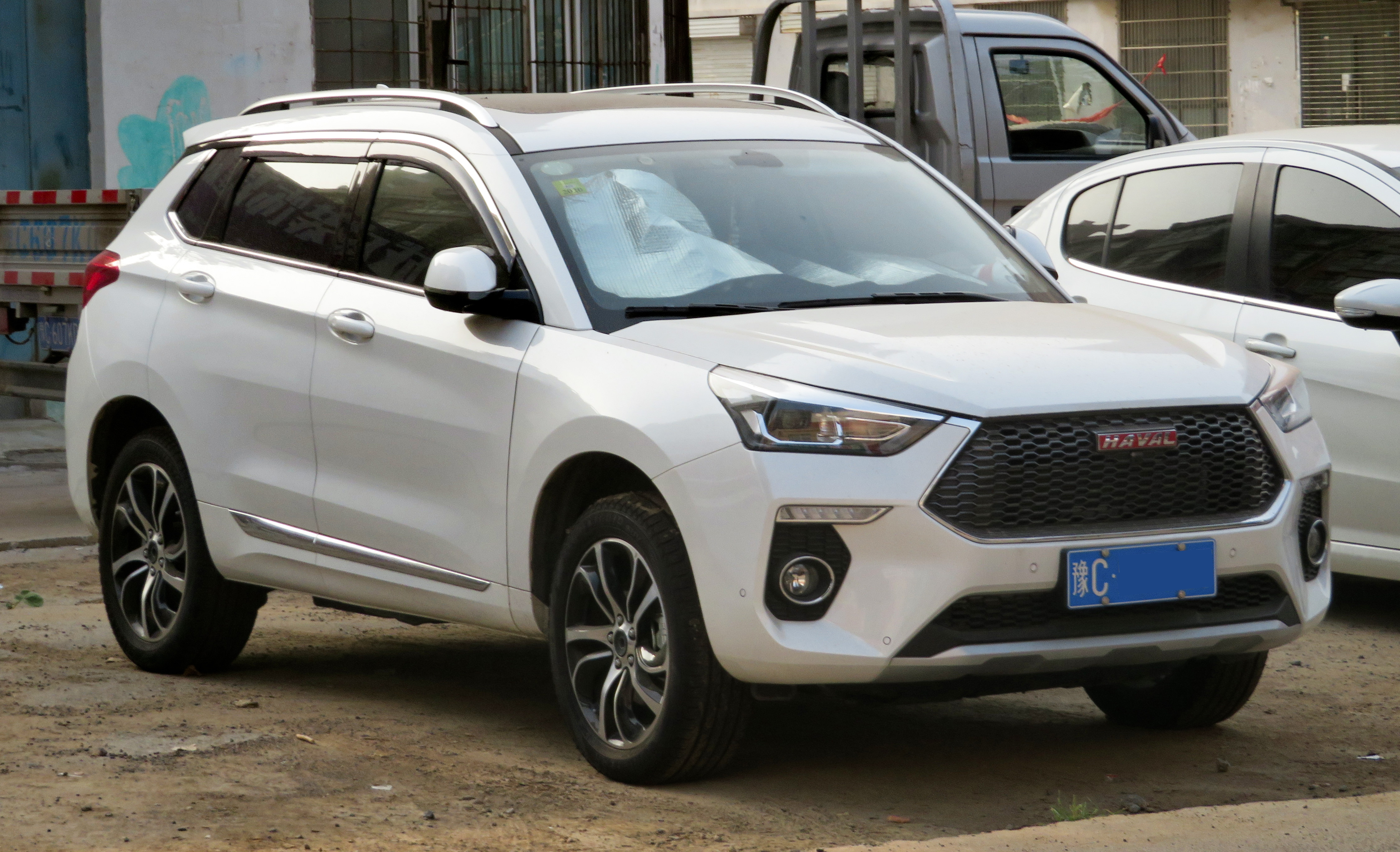 A 2018 Great-Wall Haval H6 Coupe photographed in Xigong District, Luoyang, Henan province, China